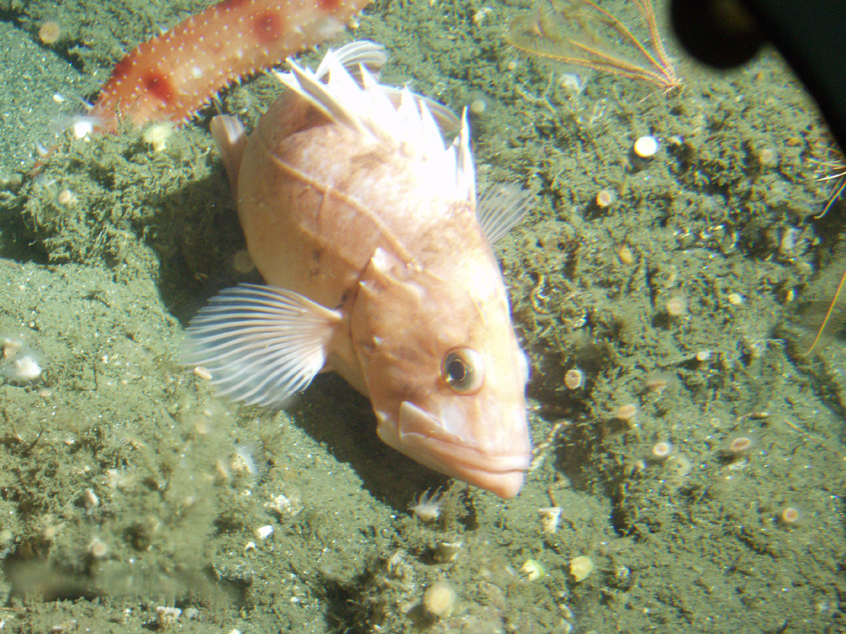 Cowcod (Sebastes levis) observed off Pt Pinos during a sanctuary seafloor monitoring survey using the Delta submersible.